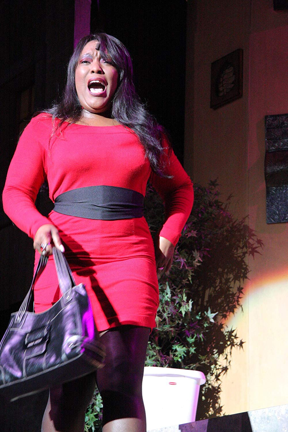 Datra Hicks Performing in Tyler Perry Production. Laugh to Keep from Crying is a play written and directed by American playwright Tyler Perry. The show first opened in the fall of 2009.